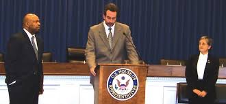 January 28, 2008, Washington, DC: Michael DeKort speaks after receiving the Ieee-ssIT Carl Barus Award for Outstand- ing service in the Public Interest. Pictured at left is U.s. Rep. elijah e. Cummings, Chairman of the subcommittee on Coast Guard and Maritime Transportation of the U.s. Congress; and at right Janet Rochester, President of IEEE-SSIT.